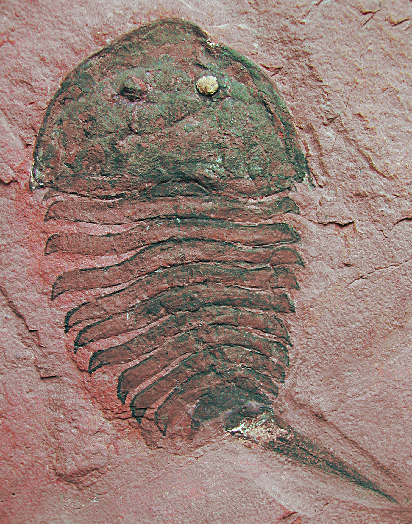 Beckwithia typa, an arthropod, Order Aglaspidida, Family Aglaspididae, collected in the Weeks Formation, Utah, USA, from the Middle Cambrian